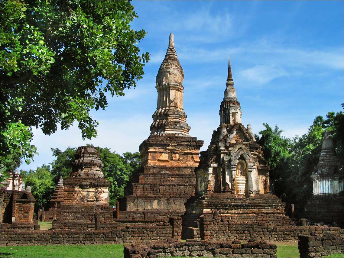 Lotus bud tower (chedi) in Wat Chedi Chet Taeo, Si Sachanalai, Thailand